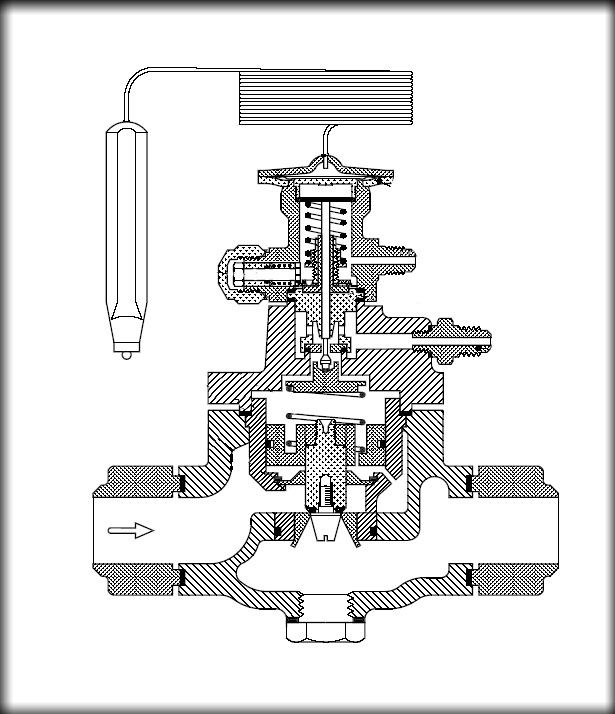 Thermostatic Expansion Valve PHT, Danfoss, from high pressure (PN 20-28 bar)